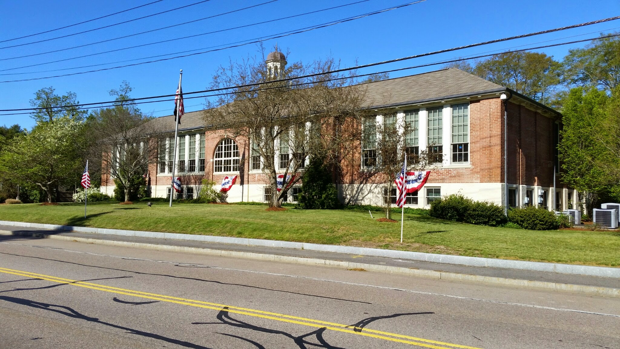 Photo of Raynham Town Hall